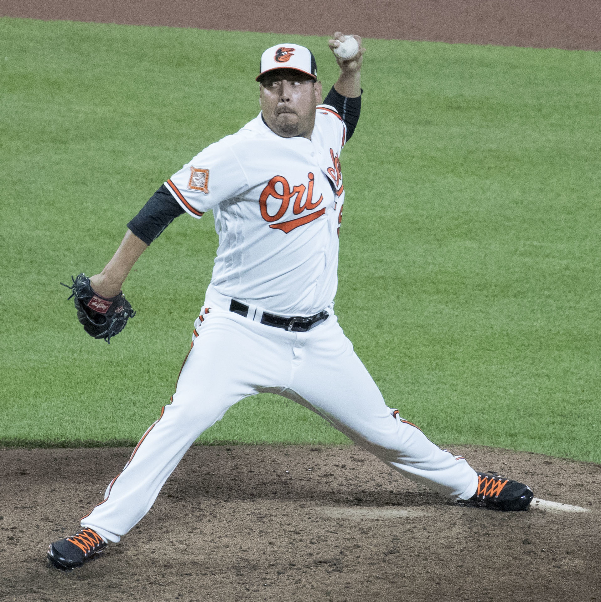 Indians at Orioles 6/19/17